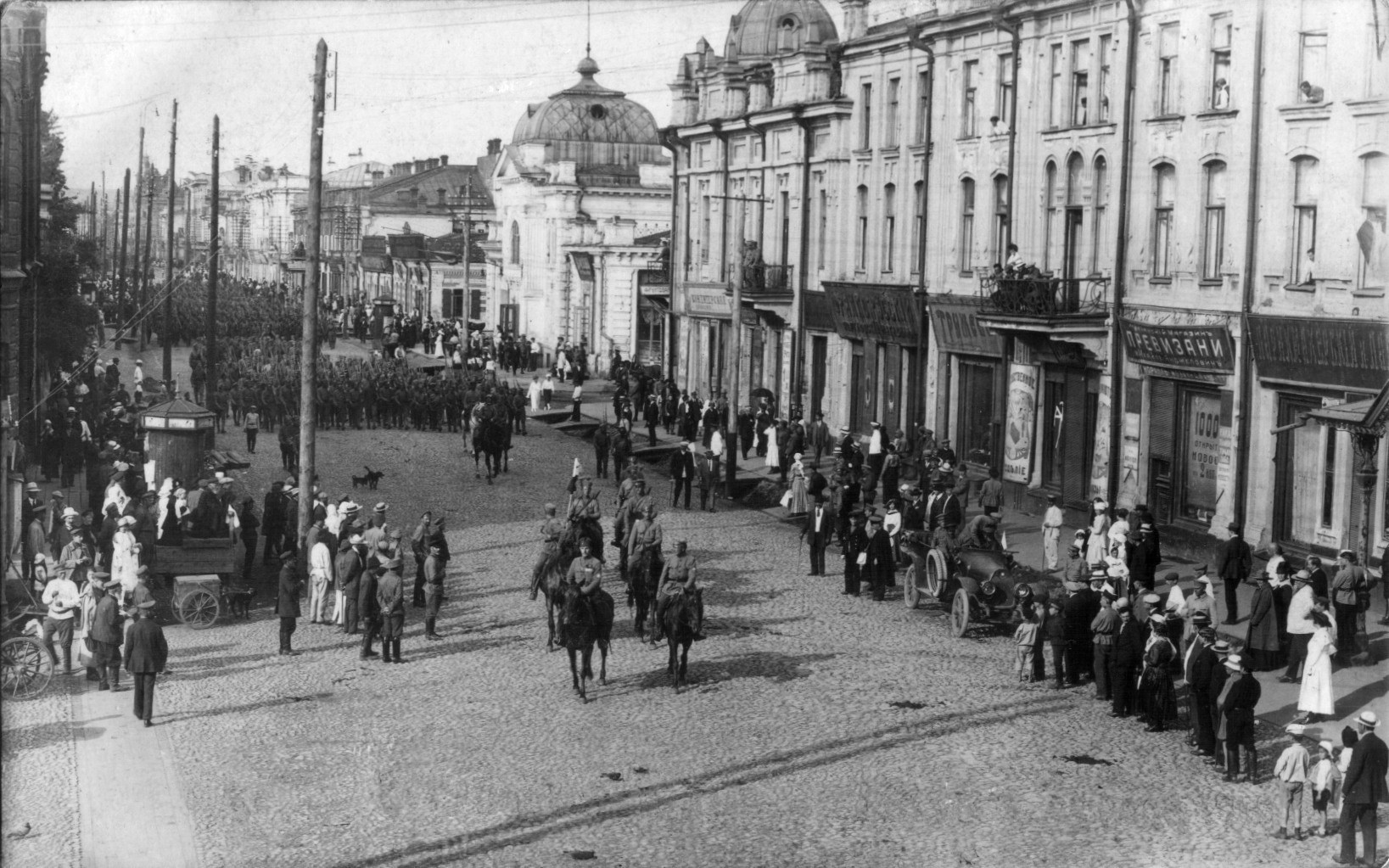 Czechoslovak Legion in Irkutsk, 28 July 1918